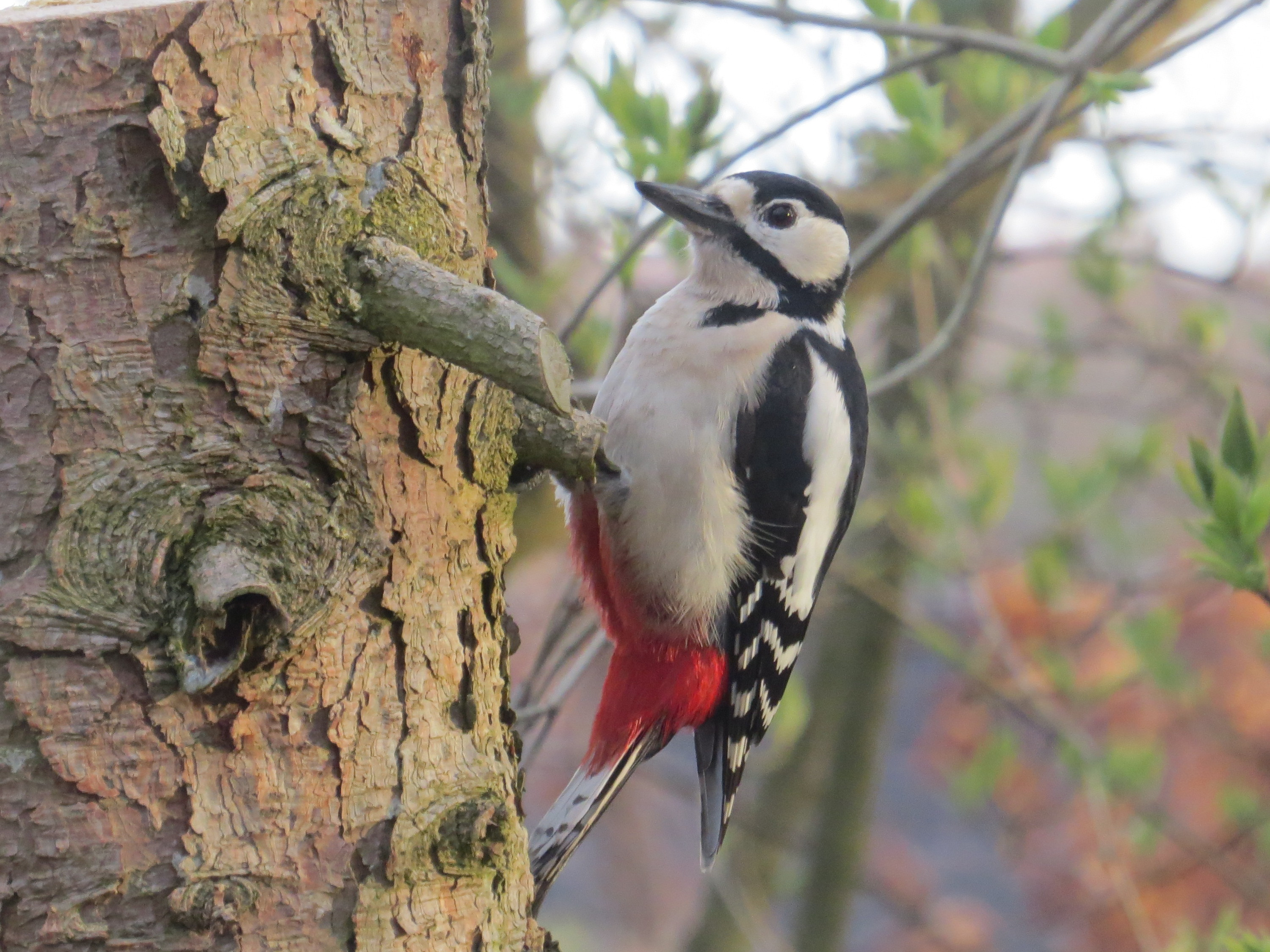 Dendrocopos major (Linnaeus, 1758), Great Spotted Woodpecker, female, Søborg, Denmark, 16 April 2015